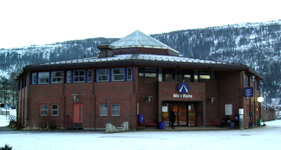 Mo i Rana railway station, Nordlandsbanen.